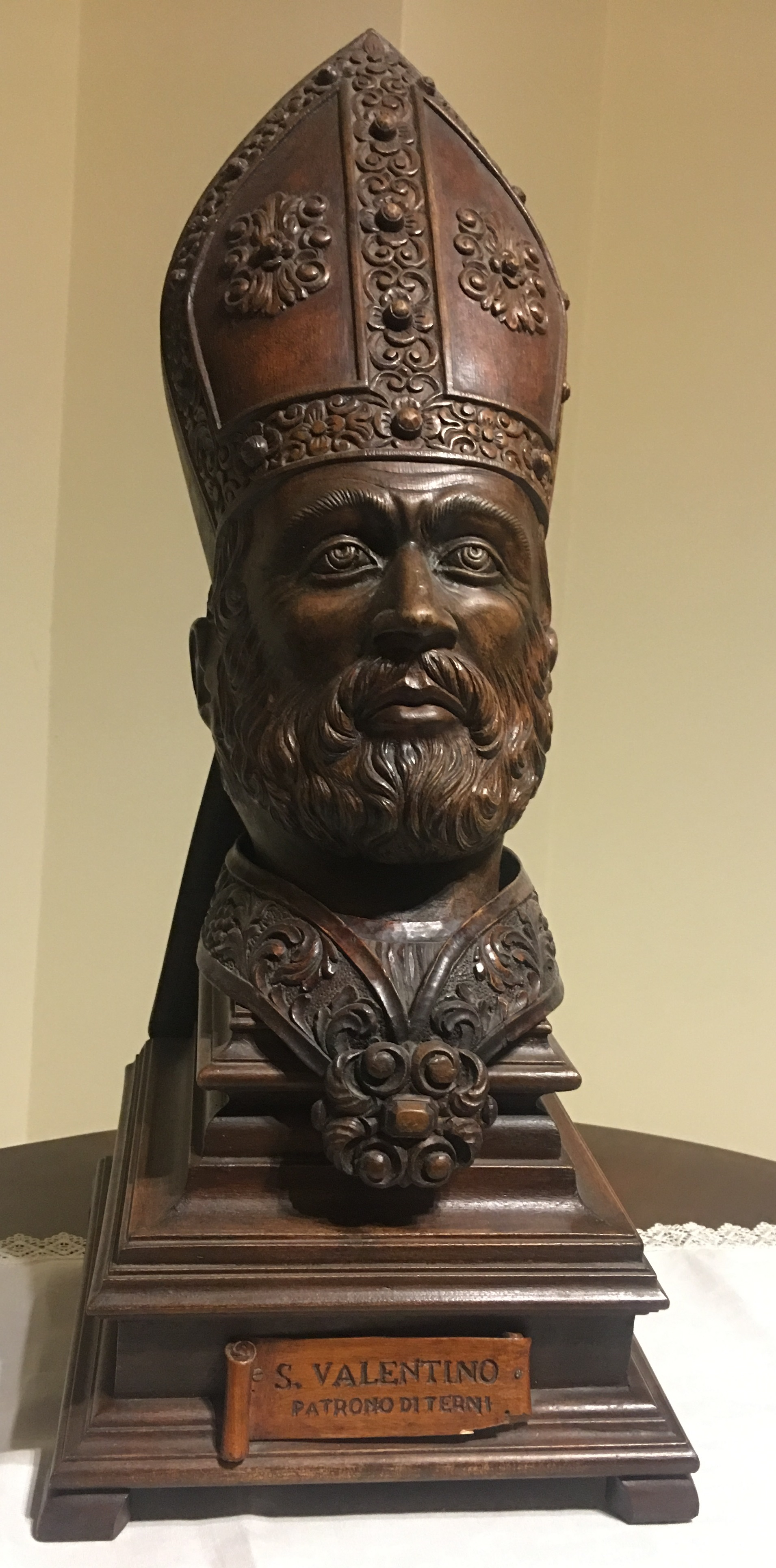 Saint Valentine